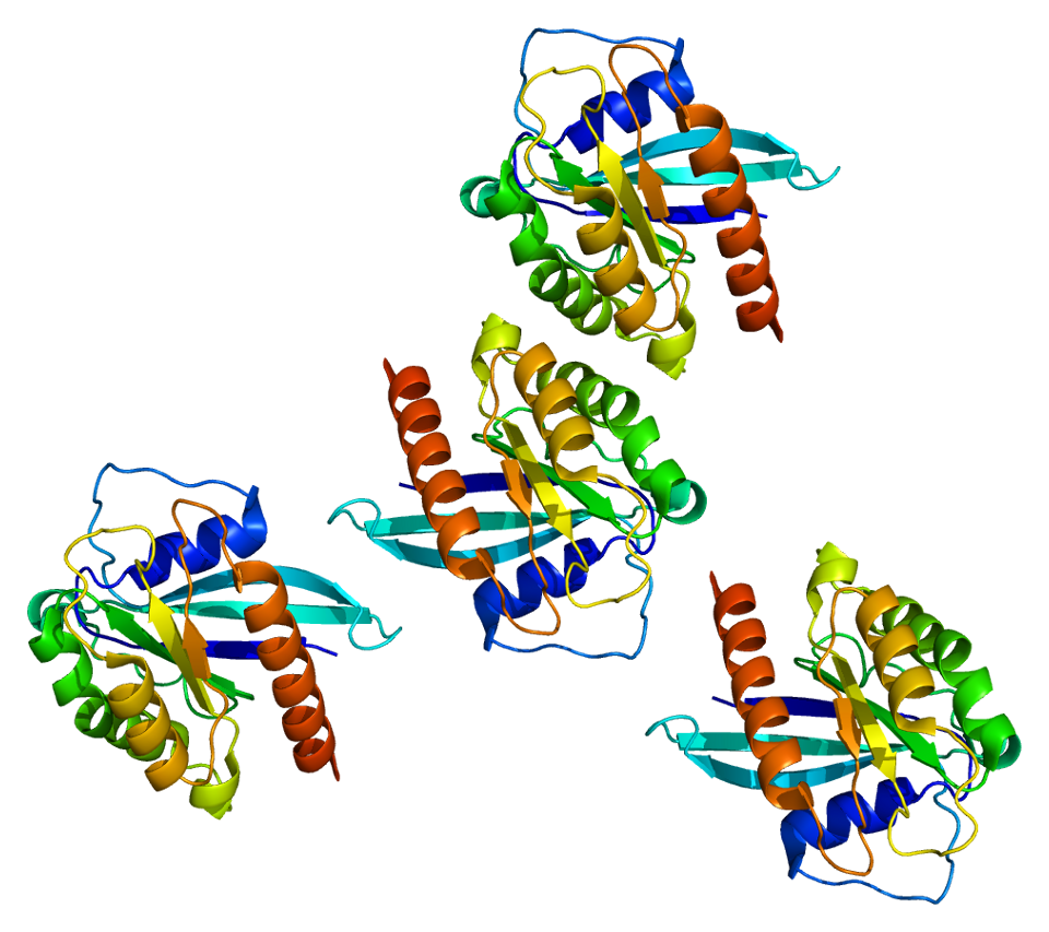 Structure of the RAB7A protein. Based on PyMOL rendering of PDB 1t91.